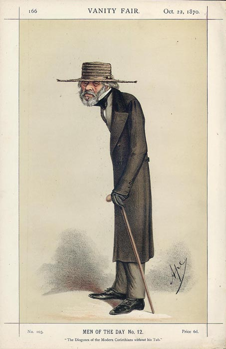 Caricature of Thomas Carlyle. Caption read "The Diogenes of the Modern Corinthians without his Tub".